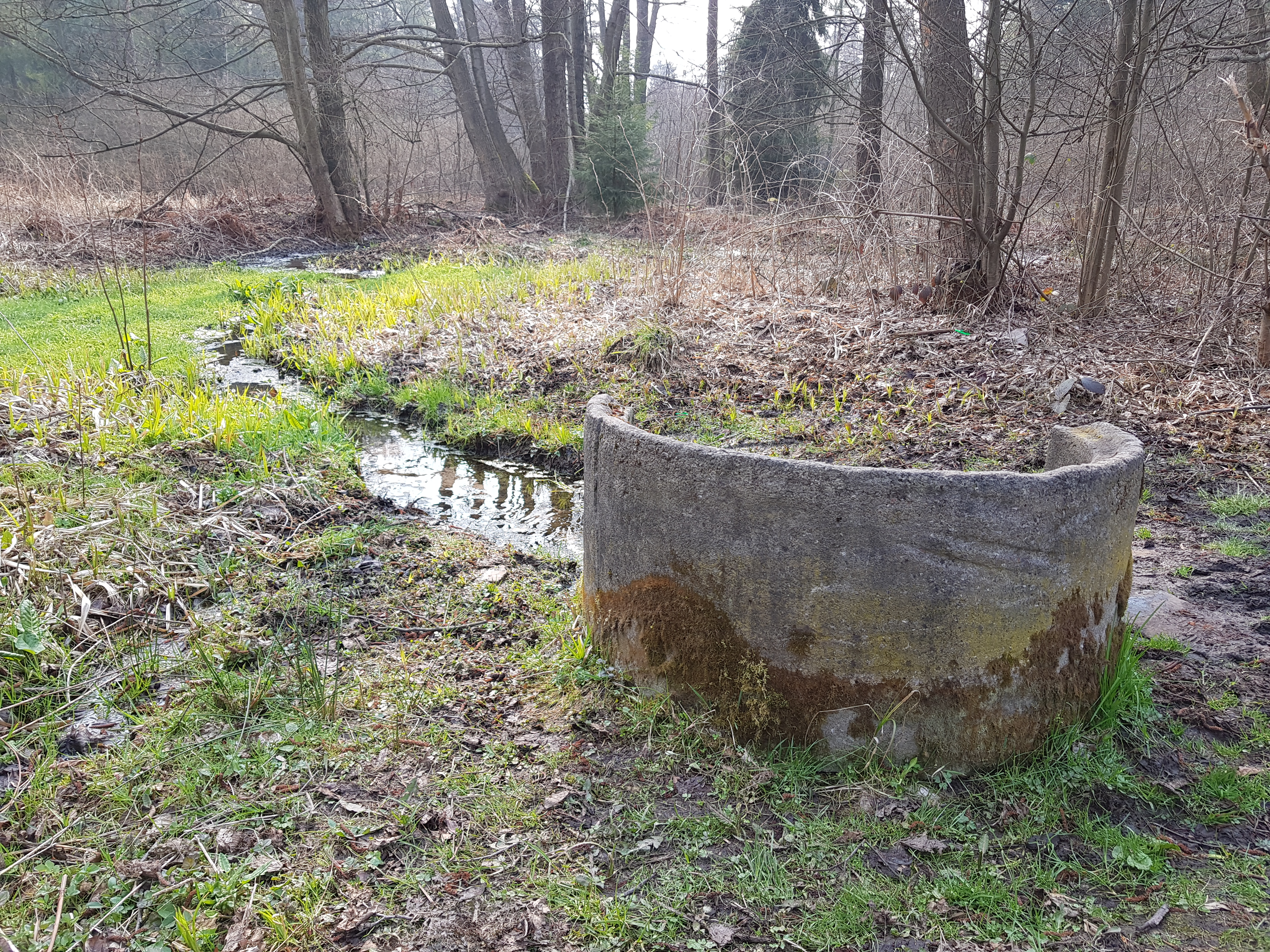 Source of Bobrza river, Poland